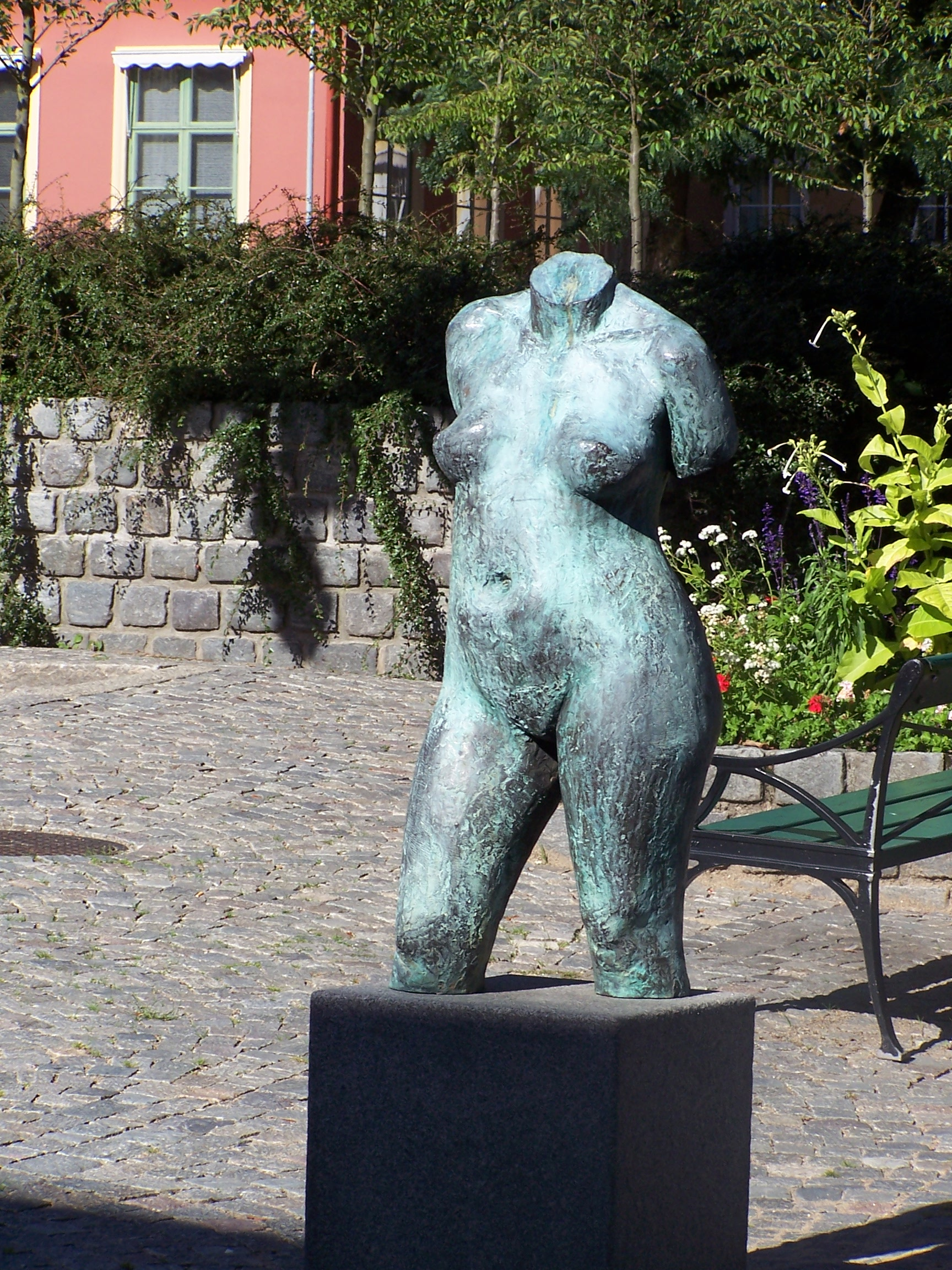 The sculpture "Torso" by Folke Truedsson 1946, Sölvesborg, Sweden